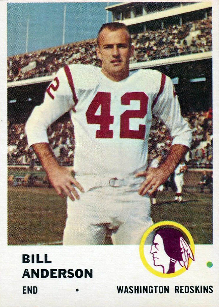 Bill Anderson of Redskins, card by Fleer